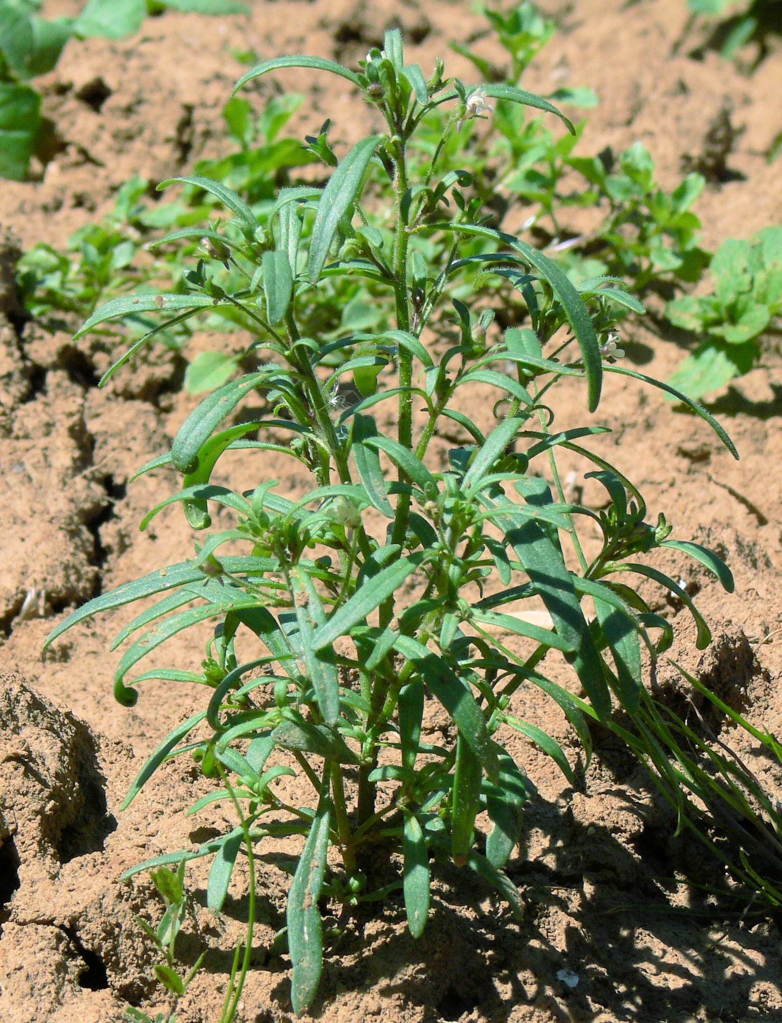 dwarf snapdragon